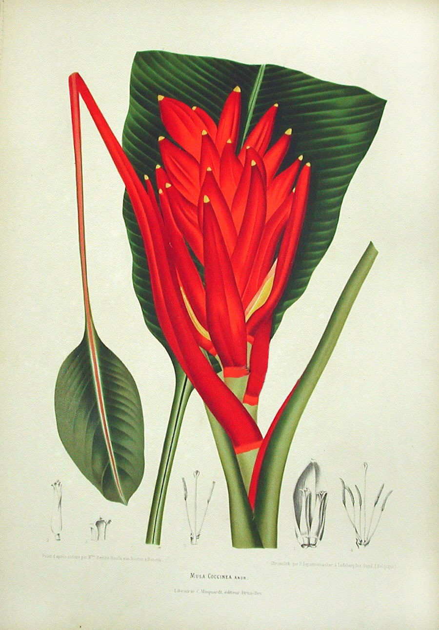 Musa coccinea Andrews from "Fleurs, Fruits et Feuillages Choisis de l'Ile de Java" [Selected Flowers, Fruit and Foliage from the Island of Java]